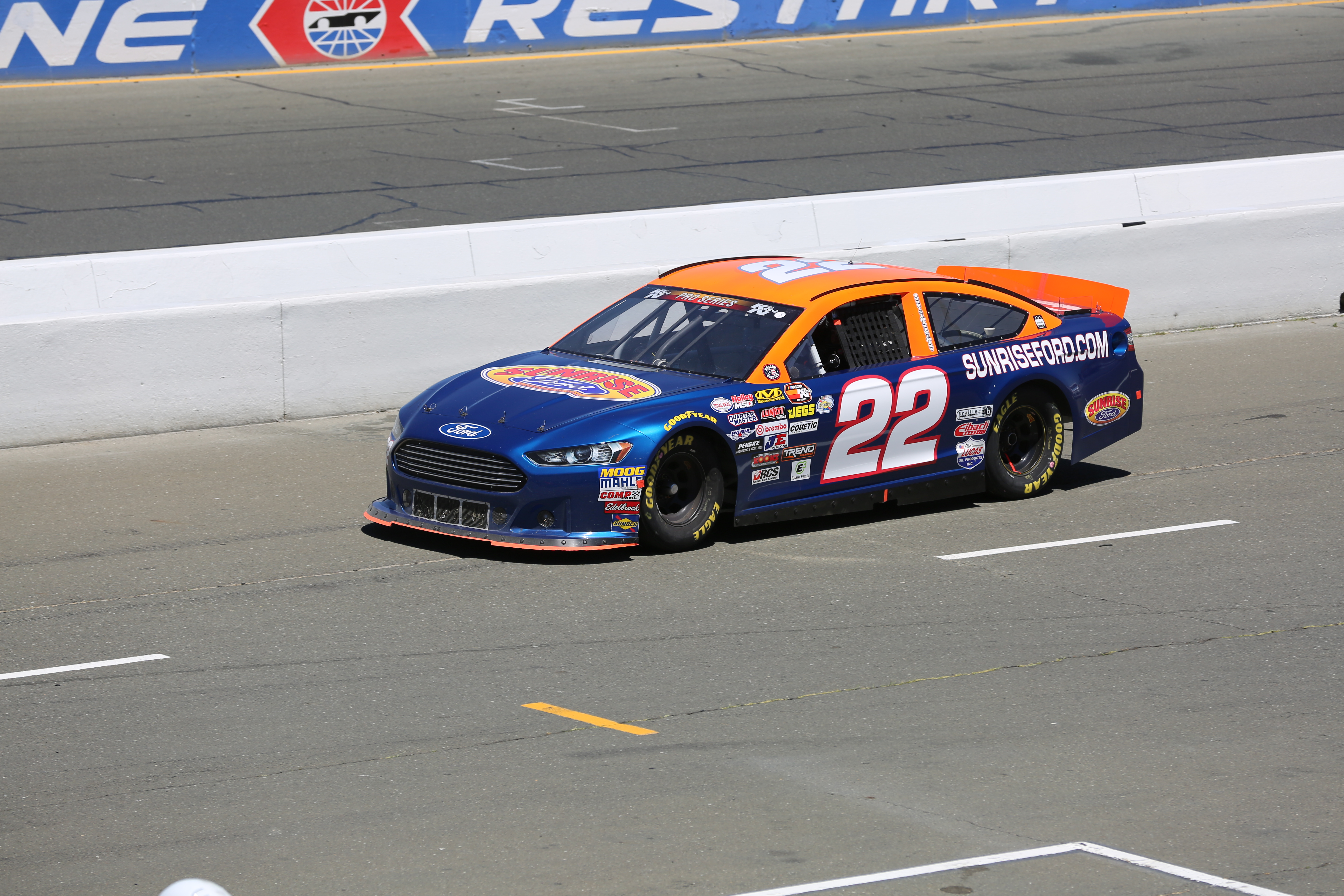 Trevor Huddleston's No. 22 Sunrise Ford Dealers Ford at Sonoma Raceway in 2018